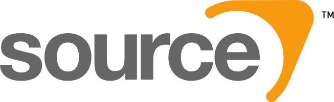 The Source Engine logo.